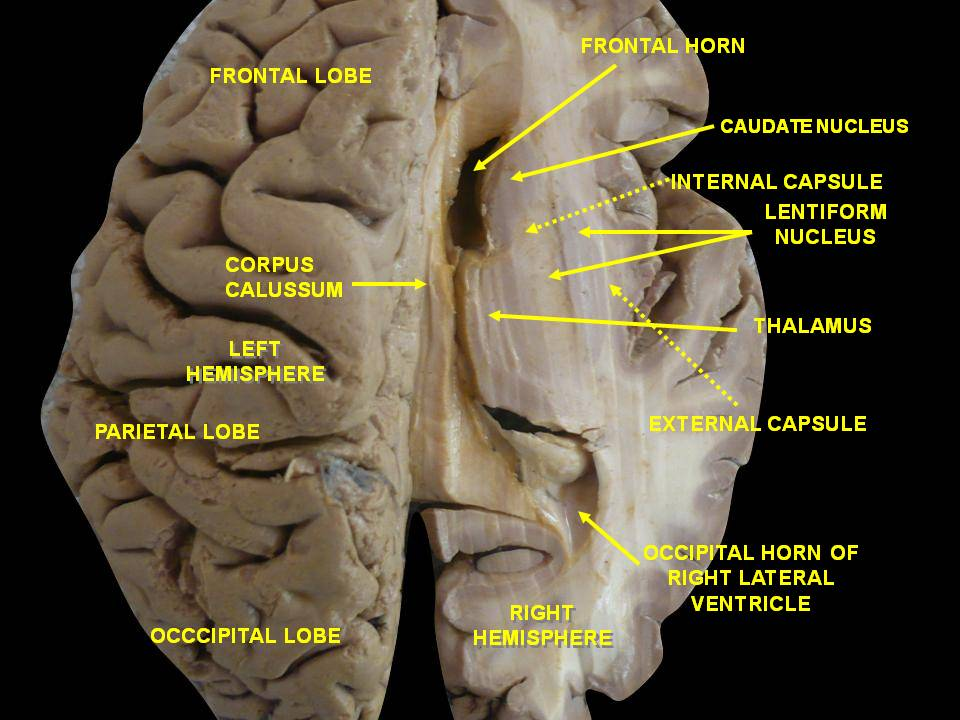 Anatomical dissections